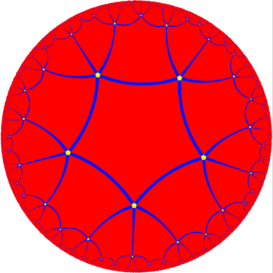 KaleidoTile, Topology and Geometry Software, Jeff Weeks Hyperbolic plane regular tiling: t0{5,5 }